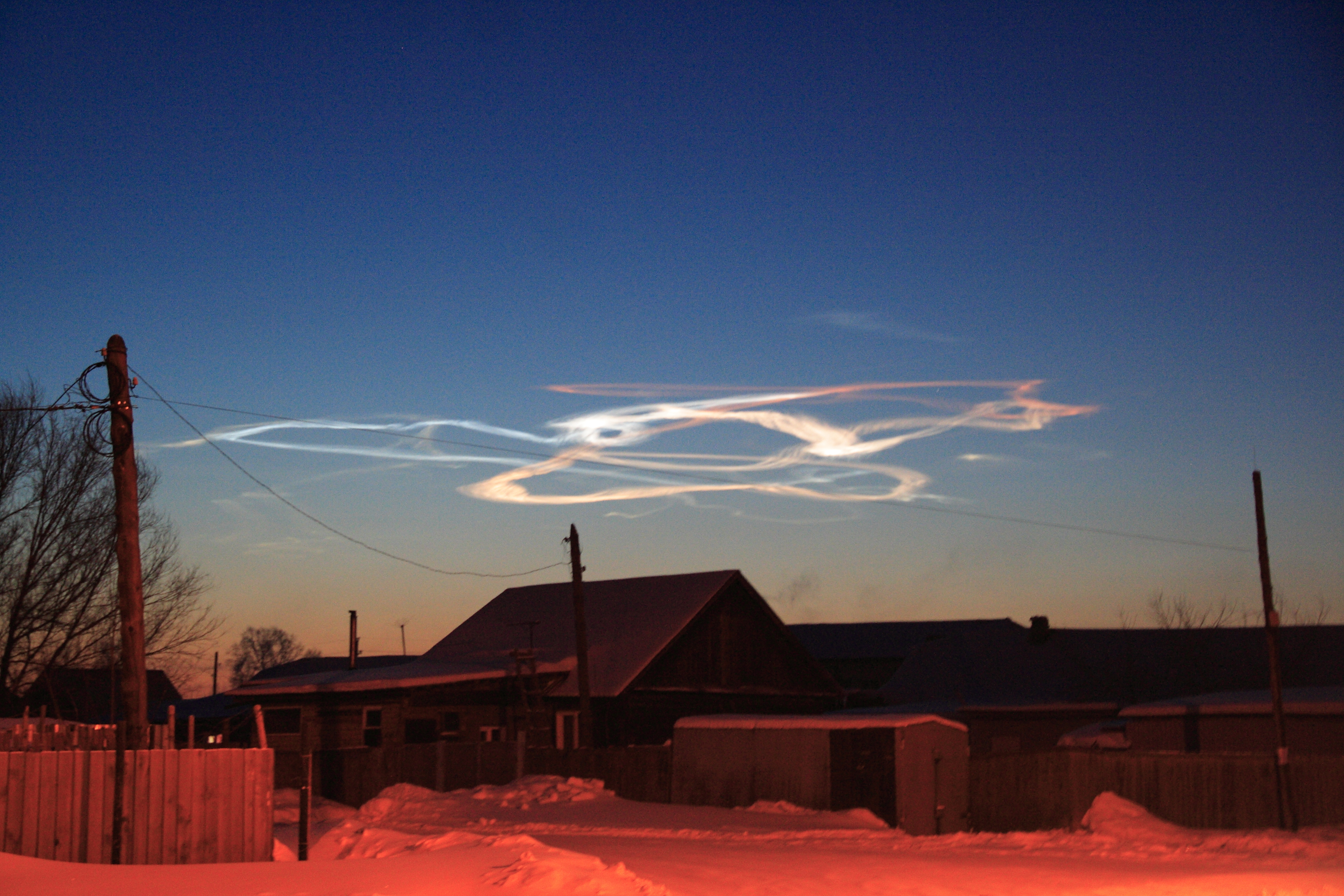 Condensation trails at an altitude of about 90 km left of the third stage of the rocket "Proton" in the morning sky. Sun rays already illuminate condensed at high altitude rocket fuel combustion, but the sky was still dark, so you should contrast.